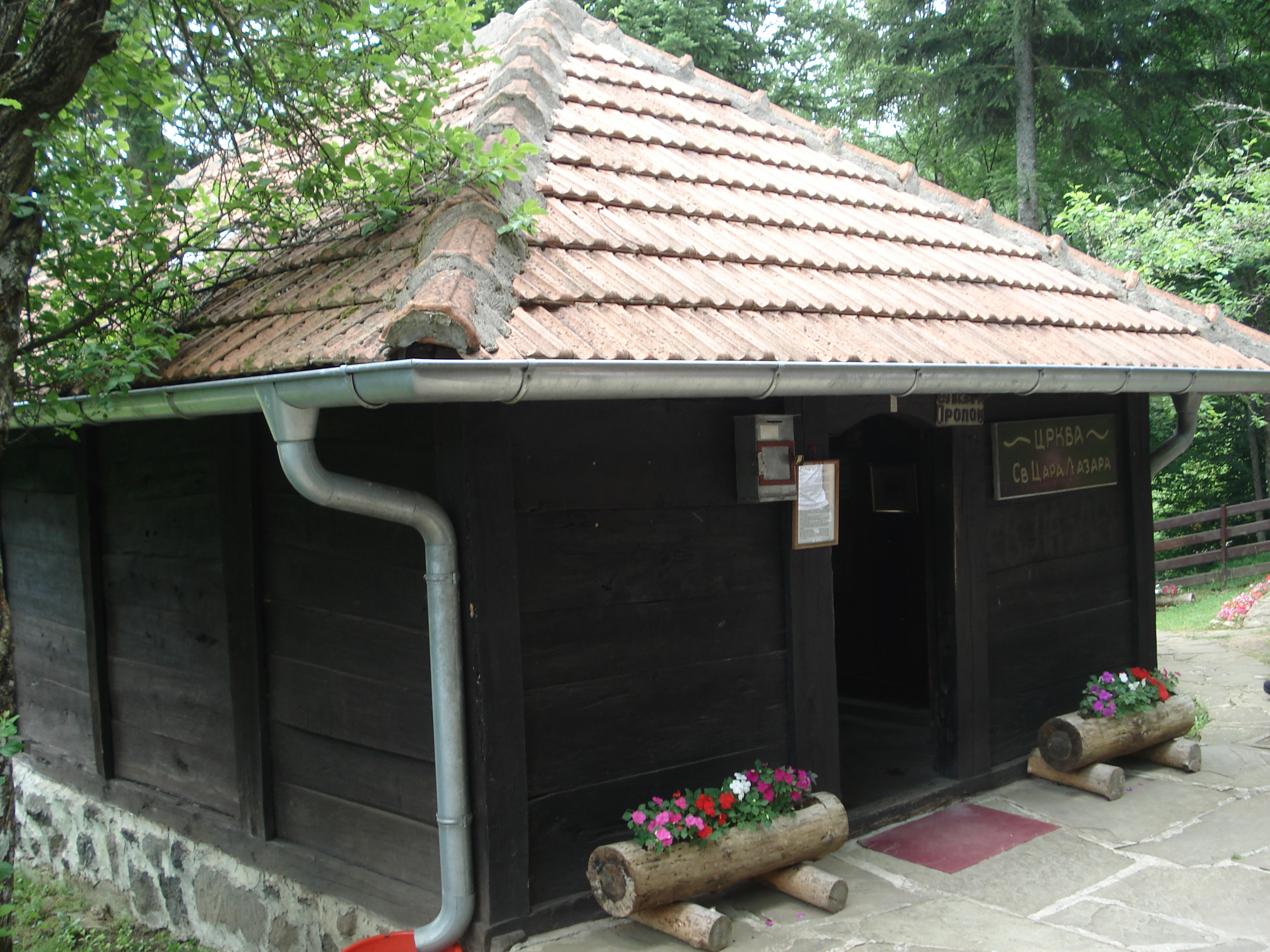 Crkva brvnara Lazarica 001